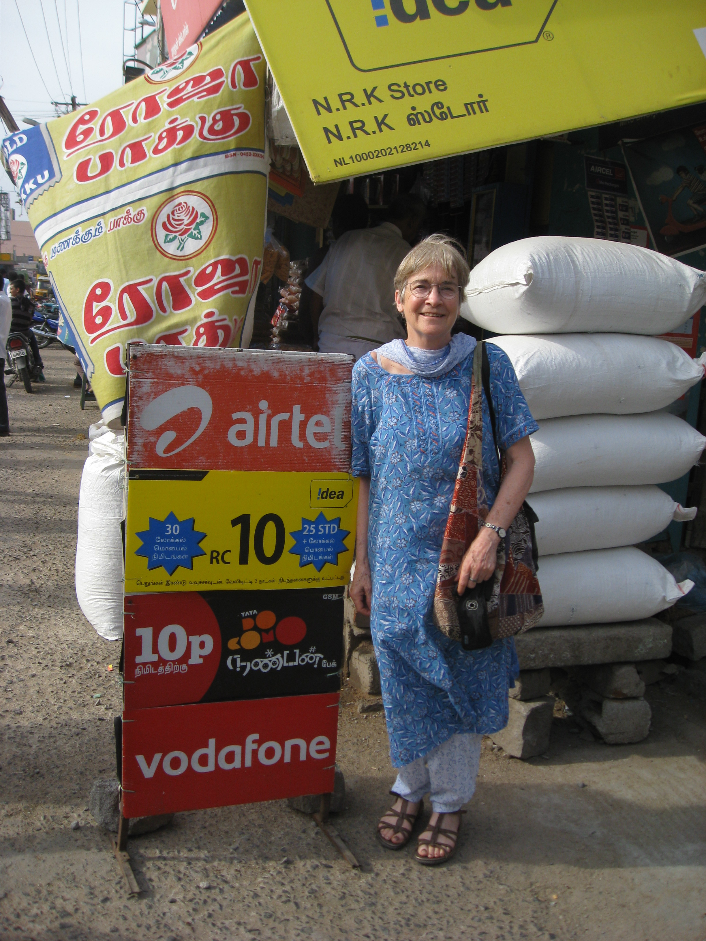 Arni fieldwork 2012